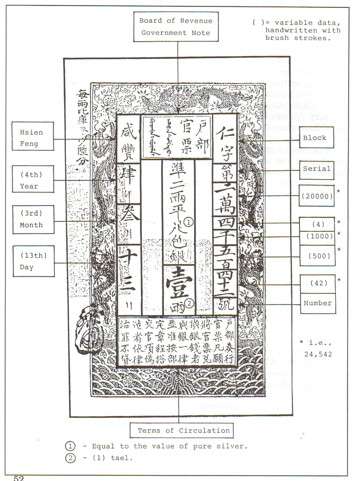 The Hubu Guanpiao (Traditional